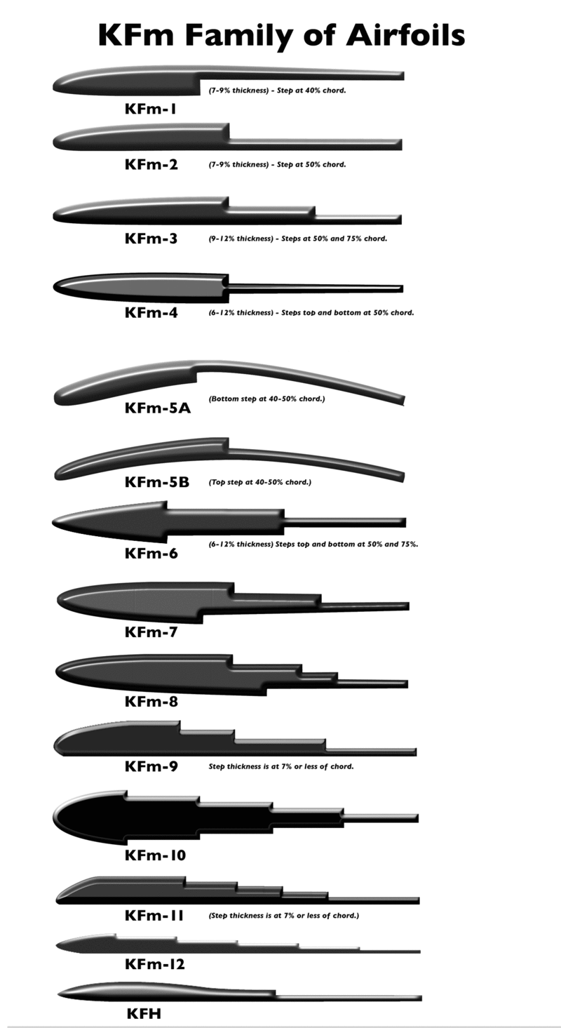 Modified Version of the KFm Airfoil family. Removed speculative comments about applications and flying characteristics.